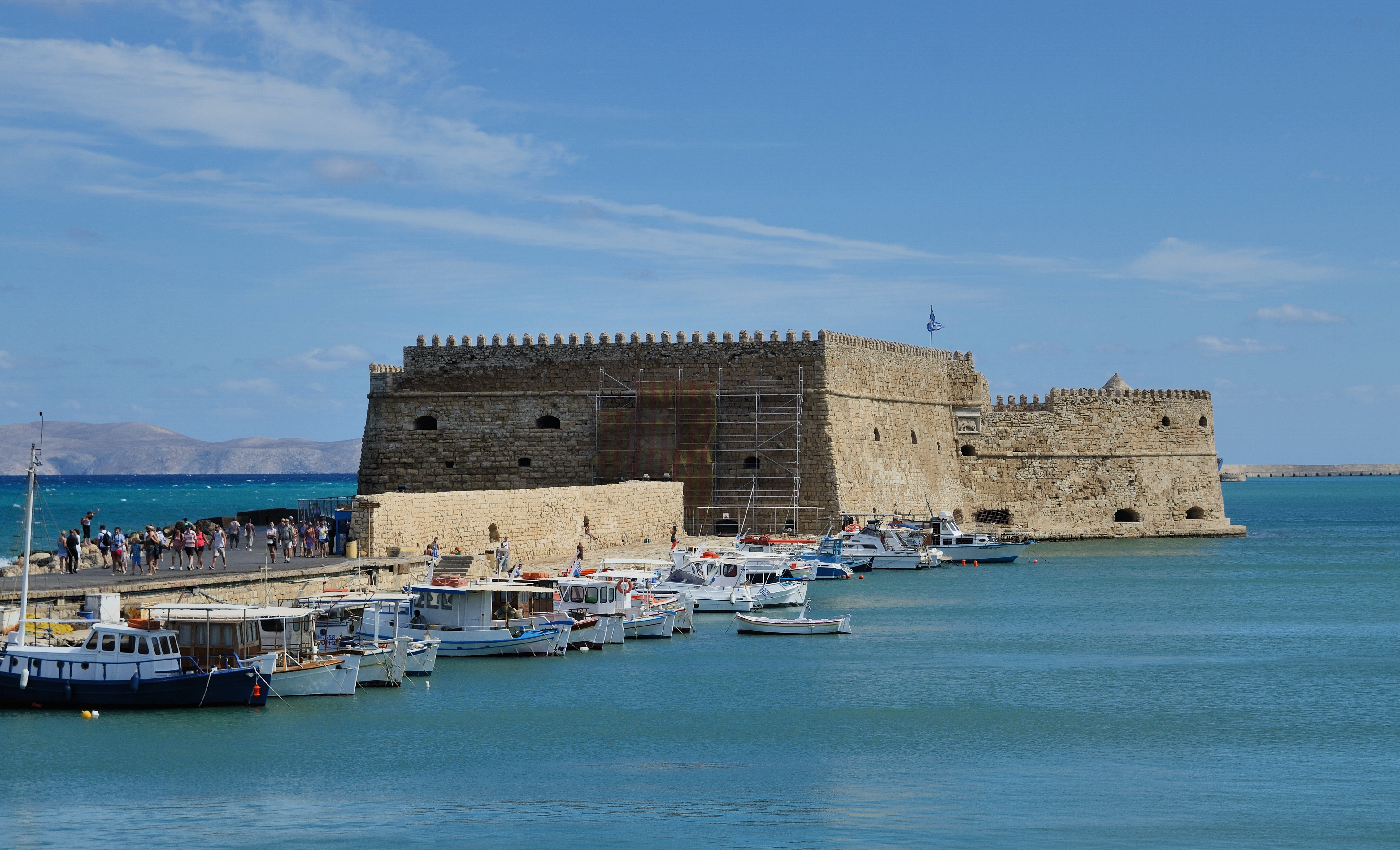 Harbour and Heraklion fort